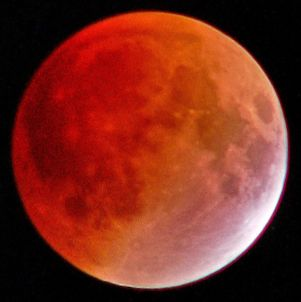 Best I could do on the red spot - really needed a motor tilt to keep up - quite pleased with the colour thou :-)